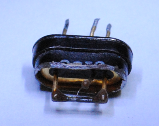 This is a silicon NPN grown-junction transistor of type ST2010, manufactured in 1961.